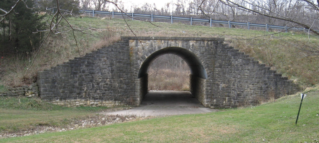 Historic Bridge 5827 in Zumbro Falls, Minnesota. Image taken by User:Mazzmn in Nov 2006 Category:Images of Minnesota